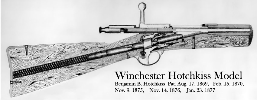 Hotchkiss Rifle